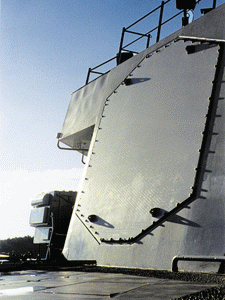 An antenna of the AN/SPY-1 Aegis radar